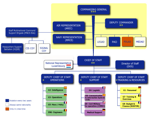 organigram Eurokorps (staff)